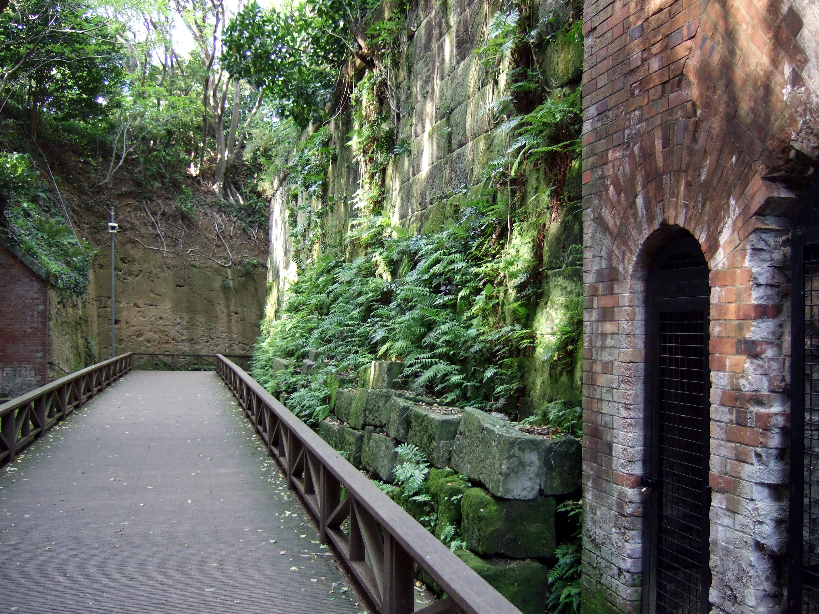 Sarushima fort. Photo taken in kanagawa Japan. Located on Sarushima Island, right off the coast of Yokosuka.